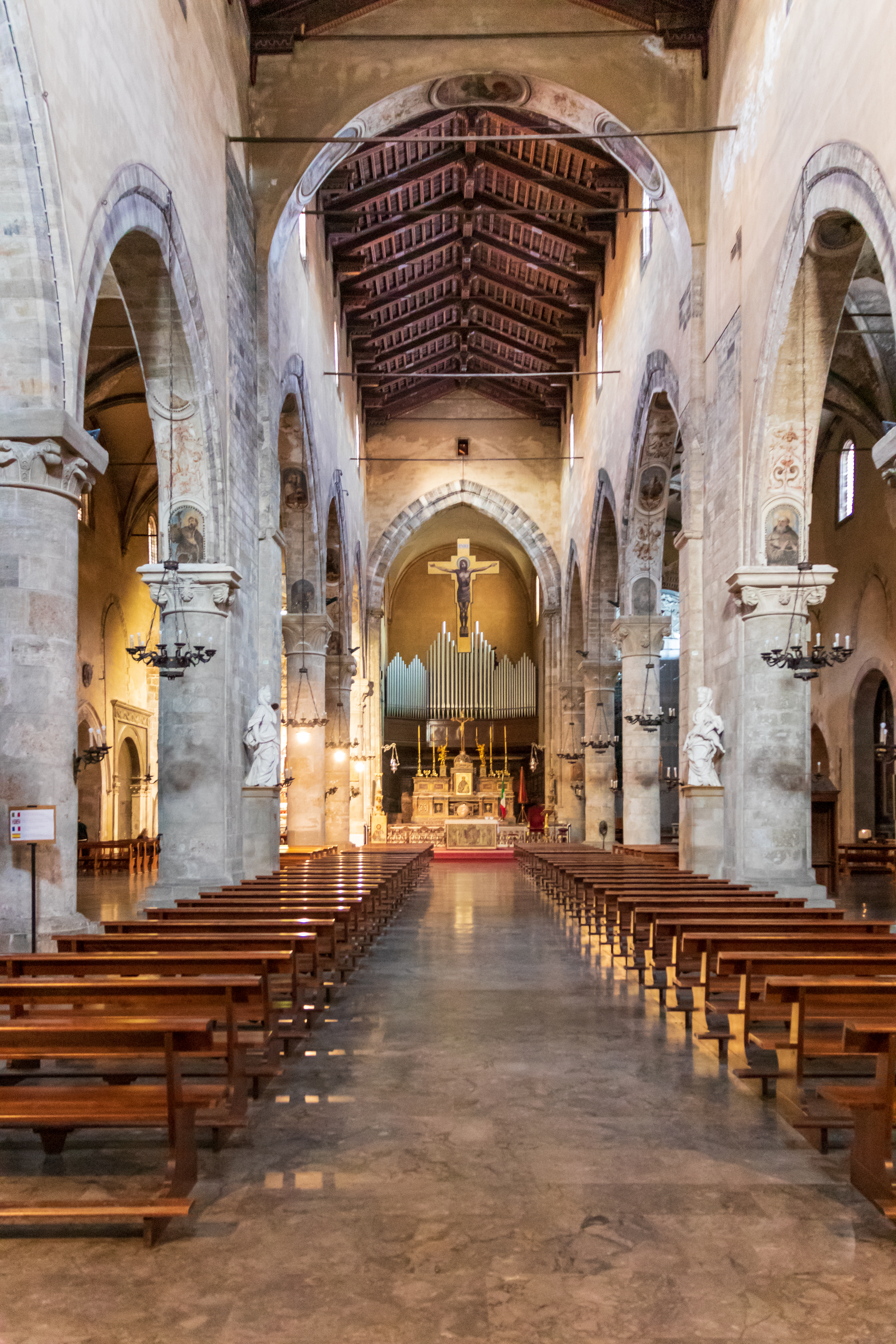 San Francesco d'Assisi (Palermo) - Interior